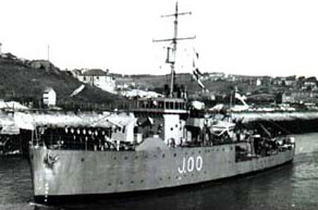 HMS Bangor (J.00) first Bangor class minesweeper, Royal Navy photograph from Second World War released to public domain.